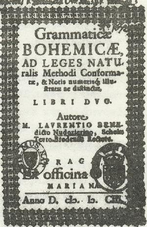 Vavrinec Benedikt Nedožerský: Grammaticae Bohemicae ad leges naturalis methodi conformatae et notis numerisque illustratae ac distinctae libri duo (Praha 1612) – book-jacket „Czech grammar...“